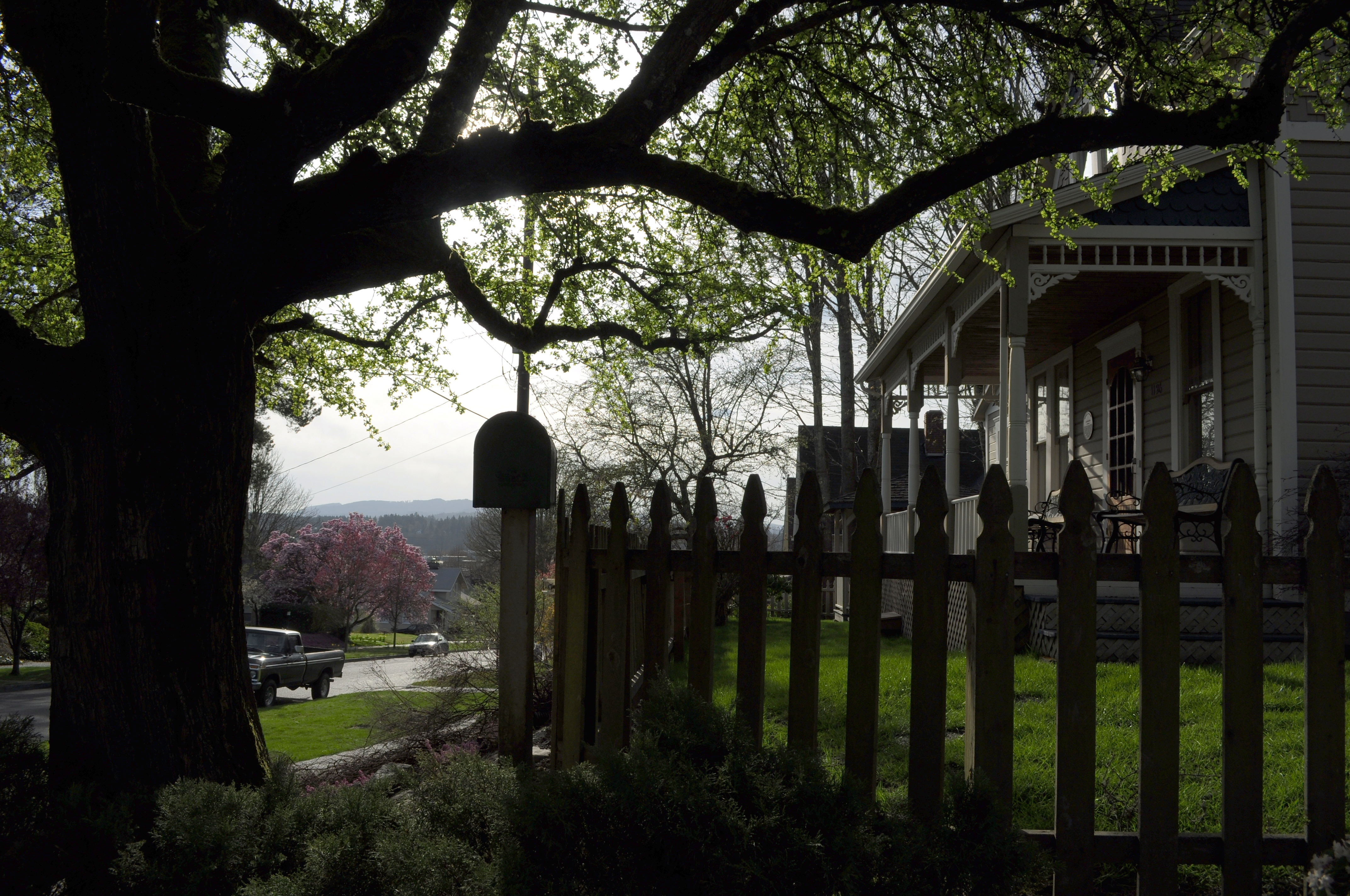 Olympia Ave NE in the Bigelow neighborhood, Olympia, Washington. Looking roughly west. In the foreground is the porch of the Clark House, 1126 Olympia Ave NE, corner of NE Puget St.